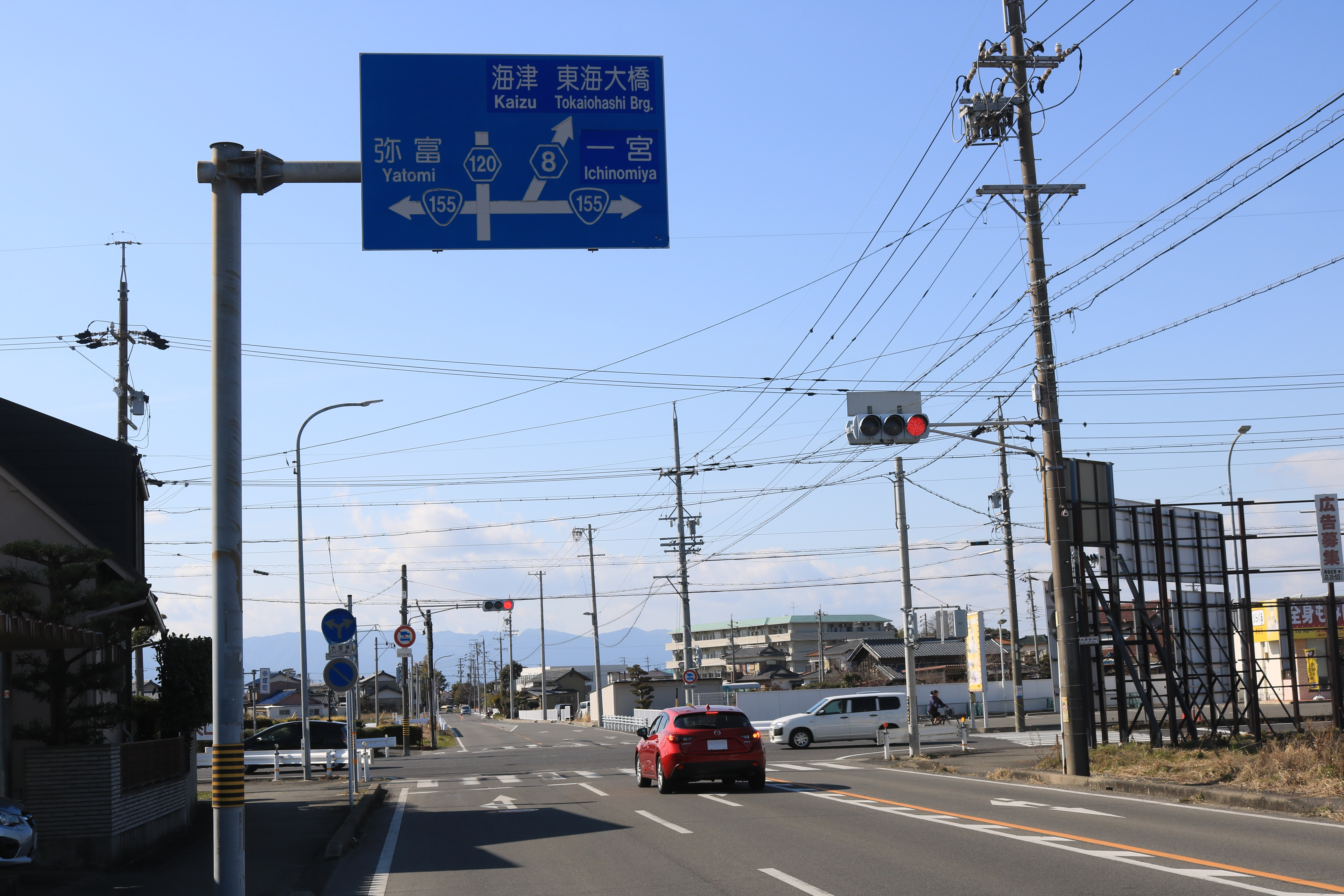 Aichi Prefectural Road Route 120 and Route 155 in Saruzukacho, Tsushima, Aichi Prefecture, Japan.